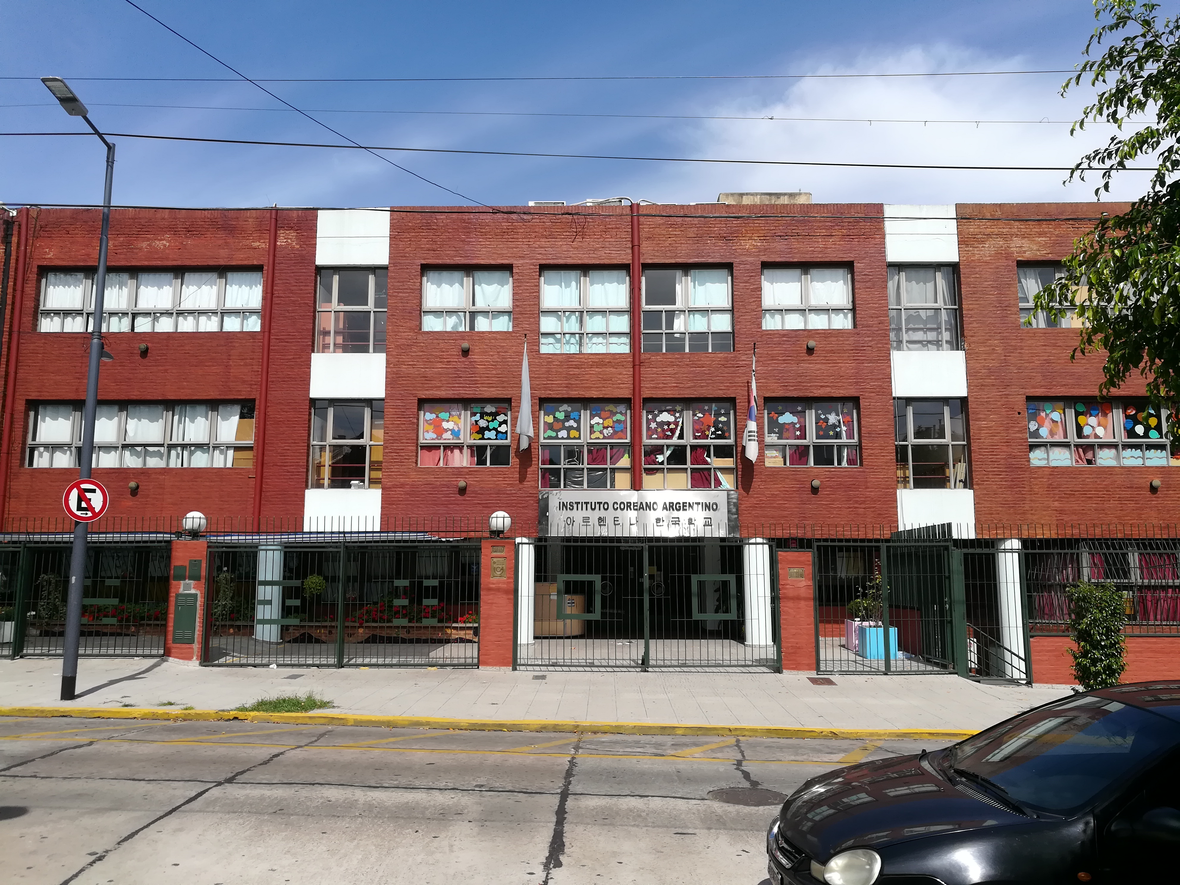 Instituto Coreano Argentino (Argentine Korean institute) in Koreatown, Buenos Aires.